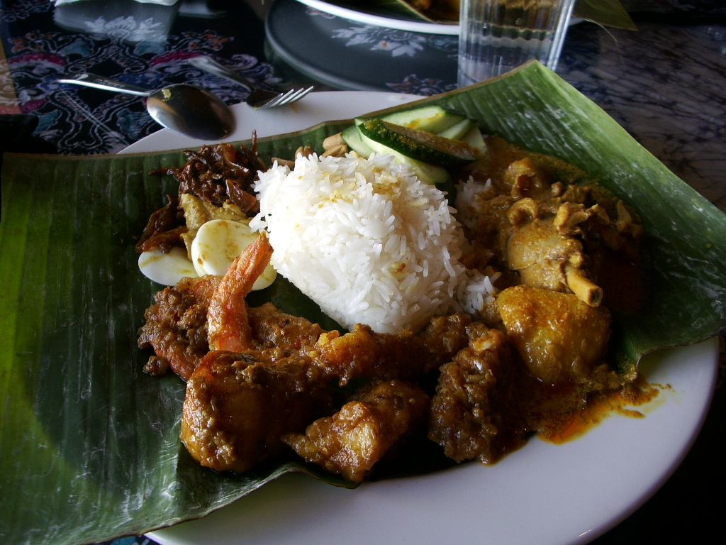 Typical plate of Nasi lemak.